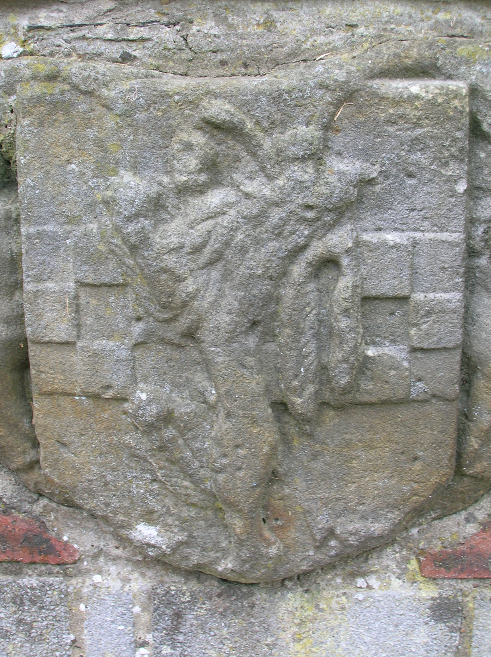 Detail of Wallace/Lindsay coat of arms, Craigie Mains farm, South Ayrshire, Scotland.